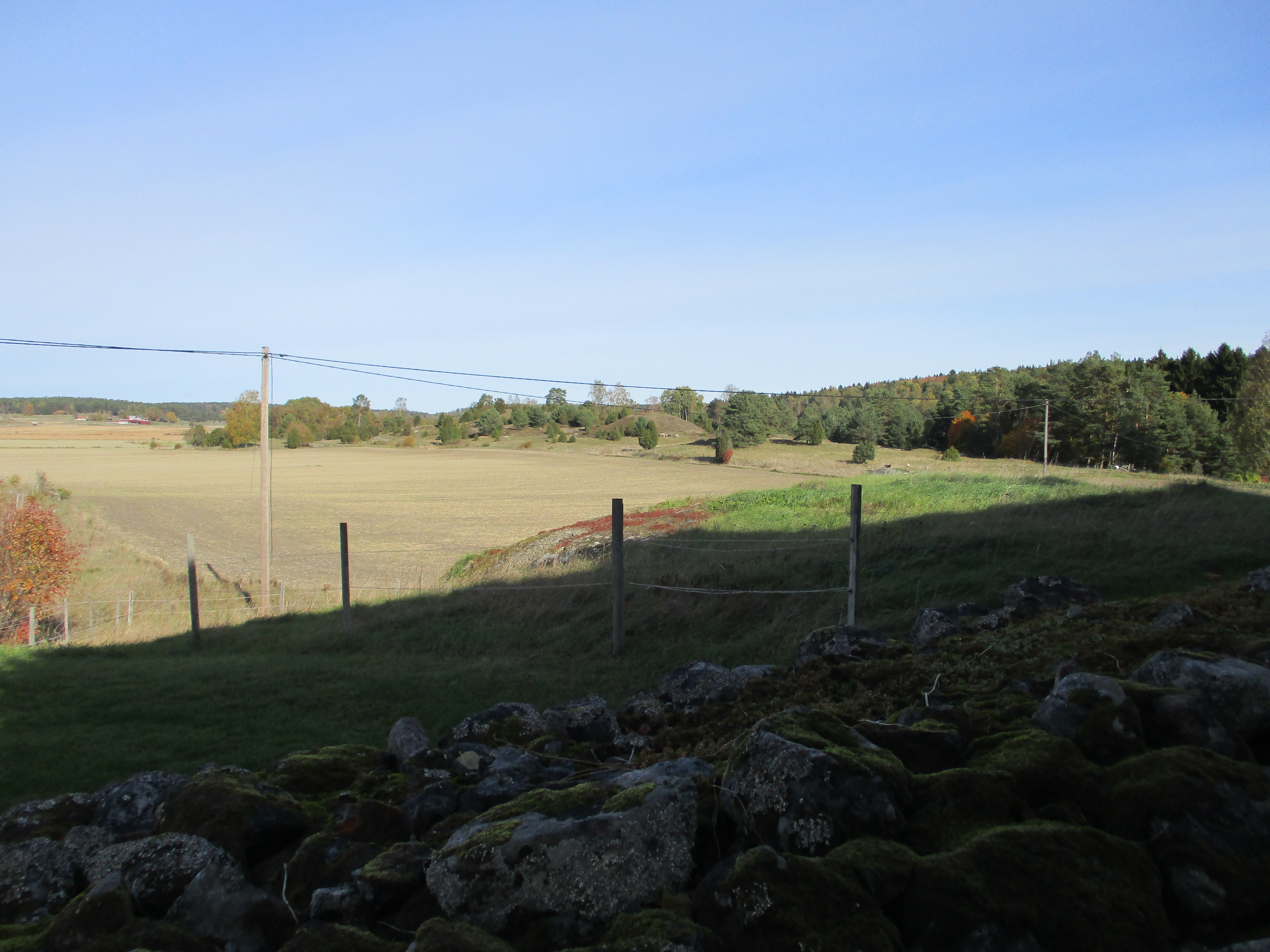 The Vada royal tumuli as seen from Vada ChurchPlace: Vallentuna, Sweden